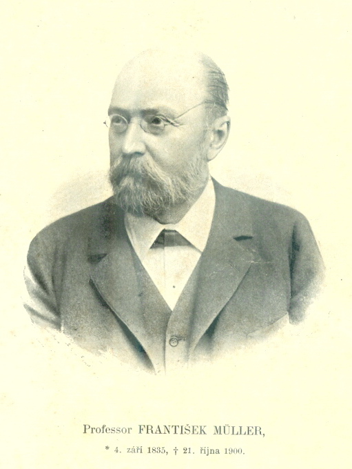 Prof. František Müller (1835-1900)